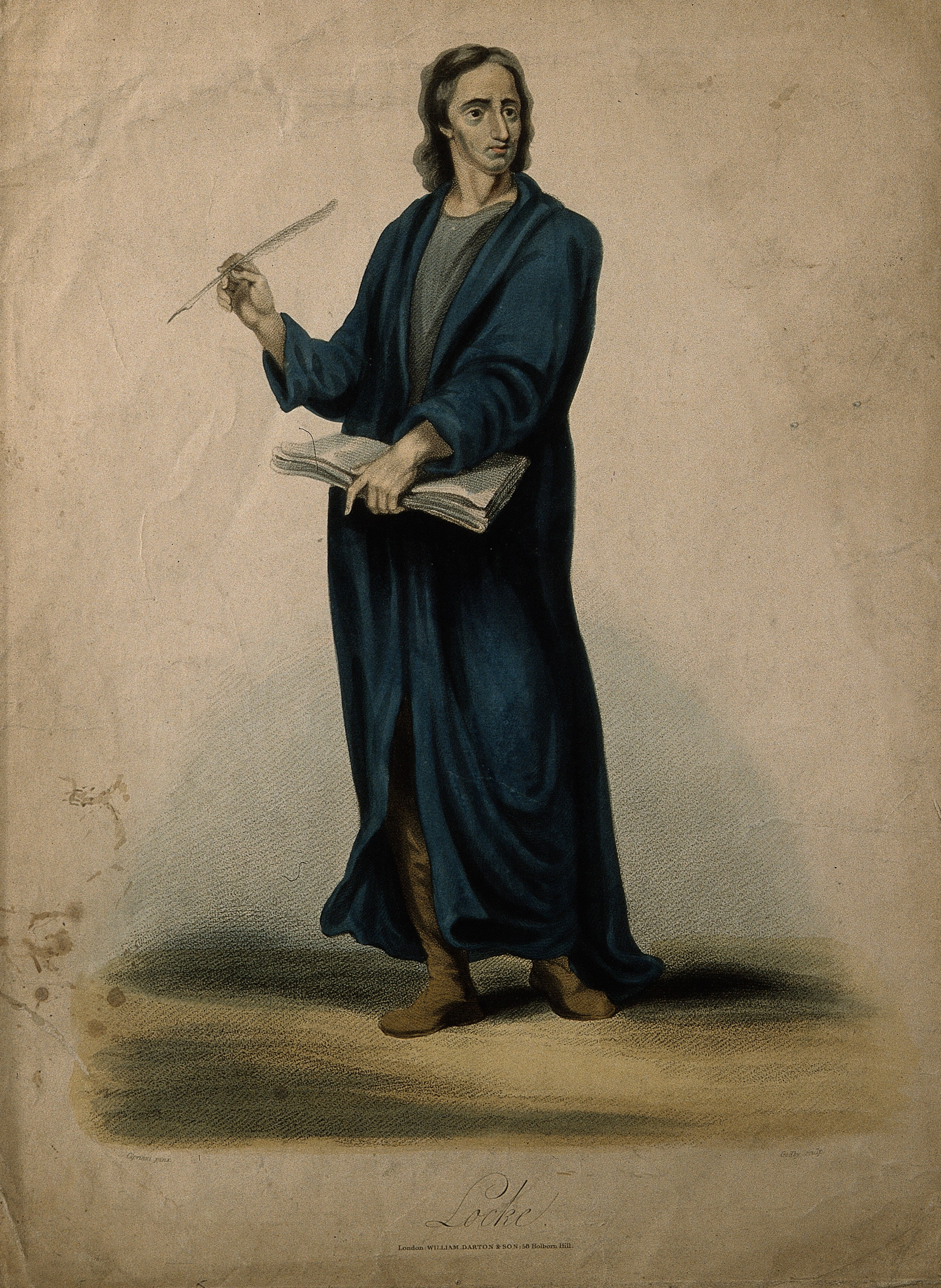 John Locke. Coloured stipple engraving by J. Godby after G. B. Cipriani. Iconographic Collections Keywords: portrait prints; James Godby; stipple prints; John Locke